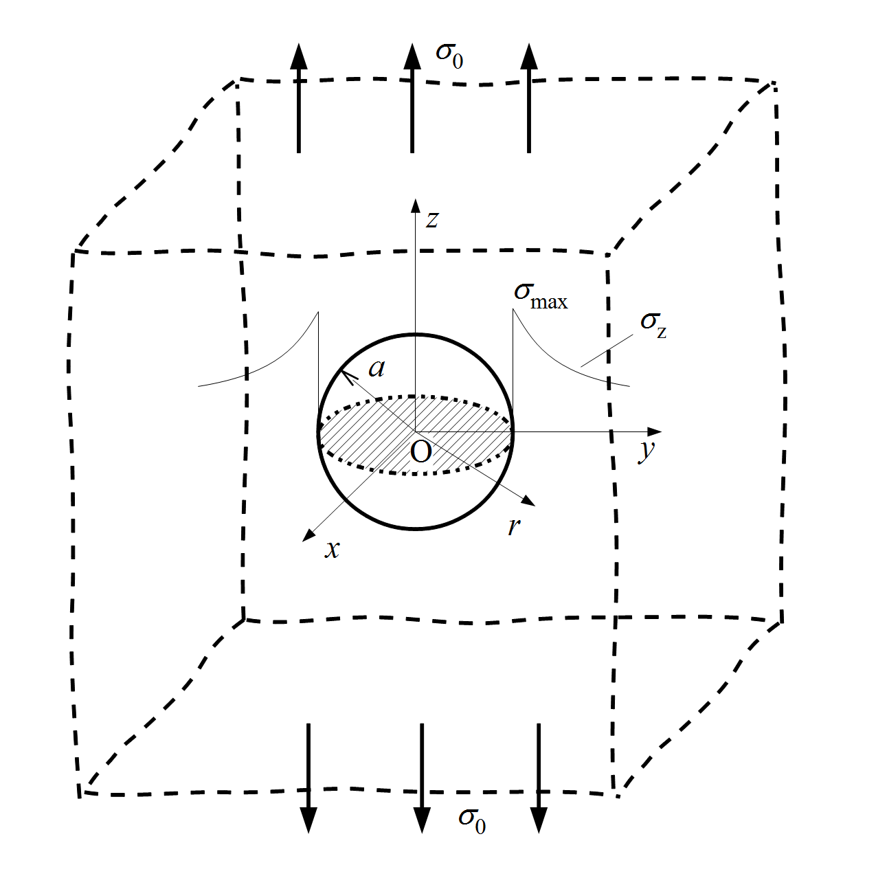 stress concentration by a spherical cavity subjected to a uniform tensile stress in an inifinite body